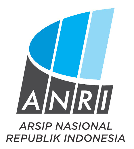 Logo of National Archives of Indonesia